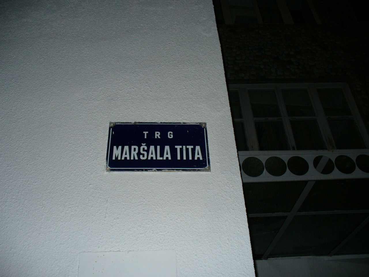 Street in Herceg Novi Named After Josip Broz Tito